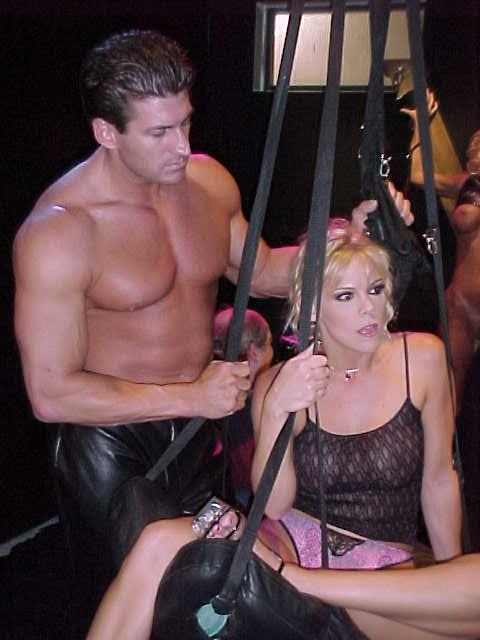 On set of Naked Hollywood